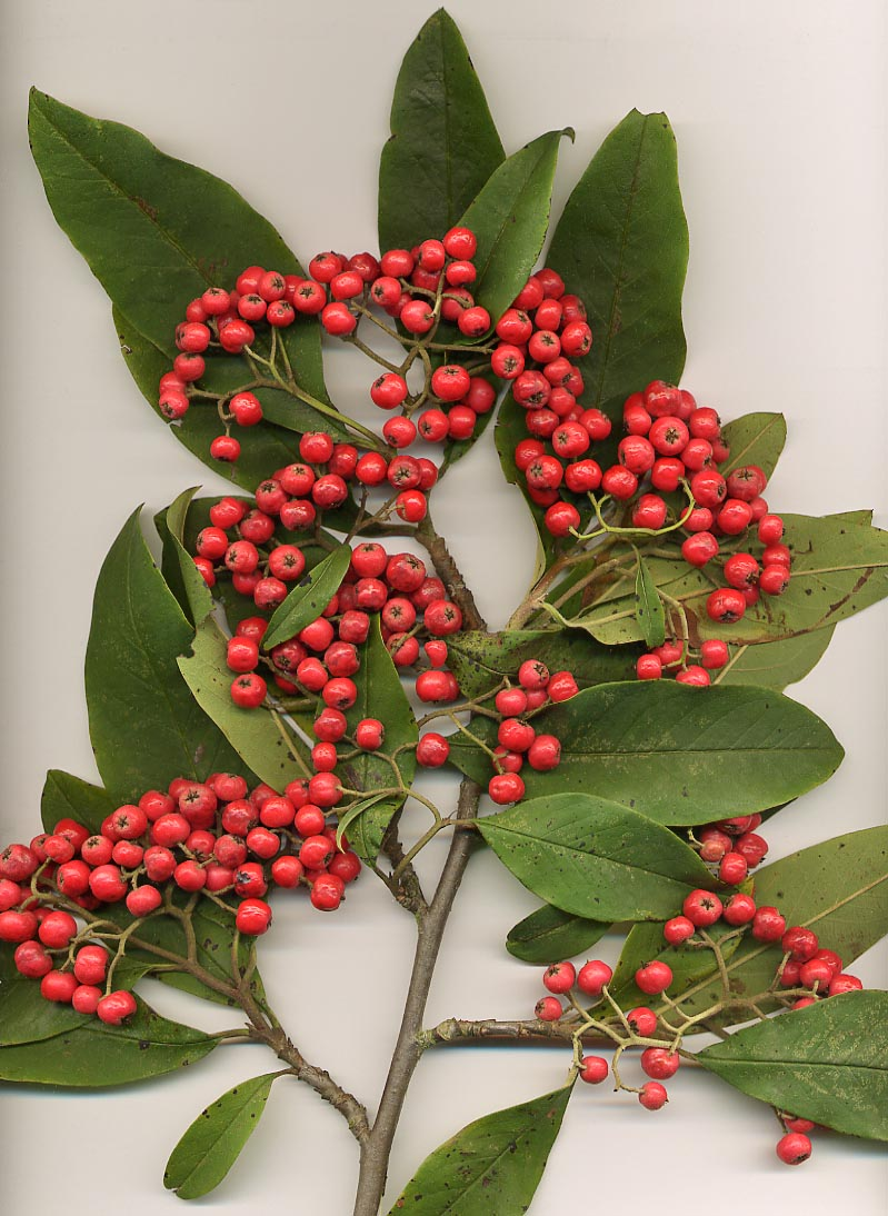 Himalayan Cotoneaster Cotoneaster frigidus foliage and fruit, cultivated, Newcastle, UK